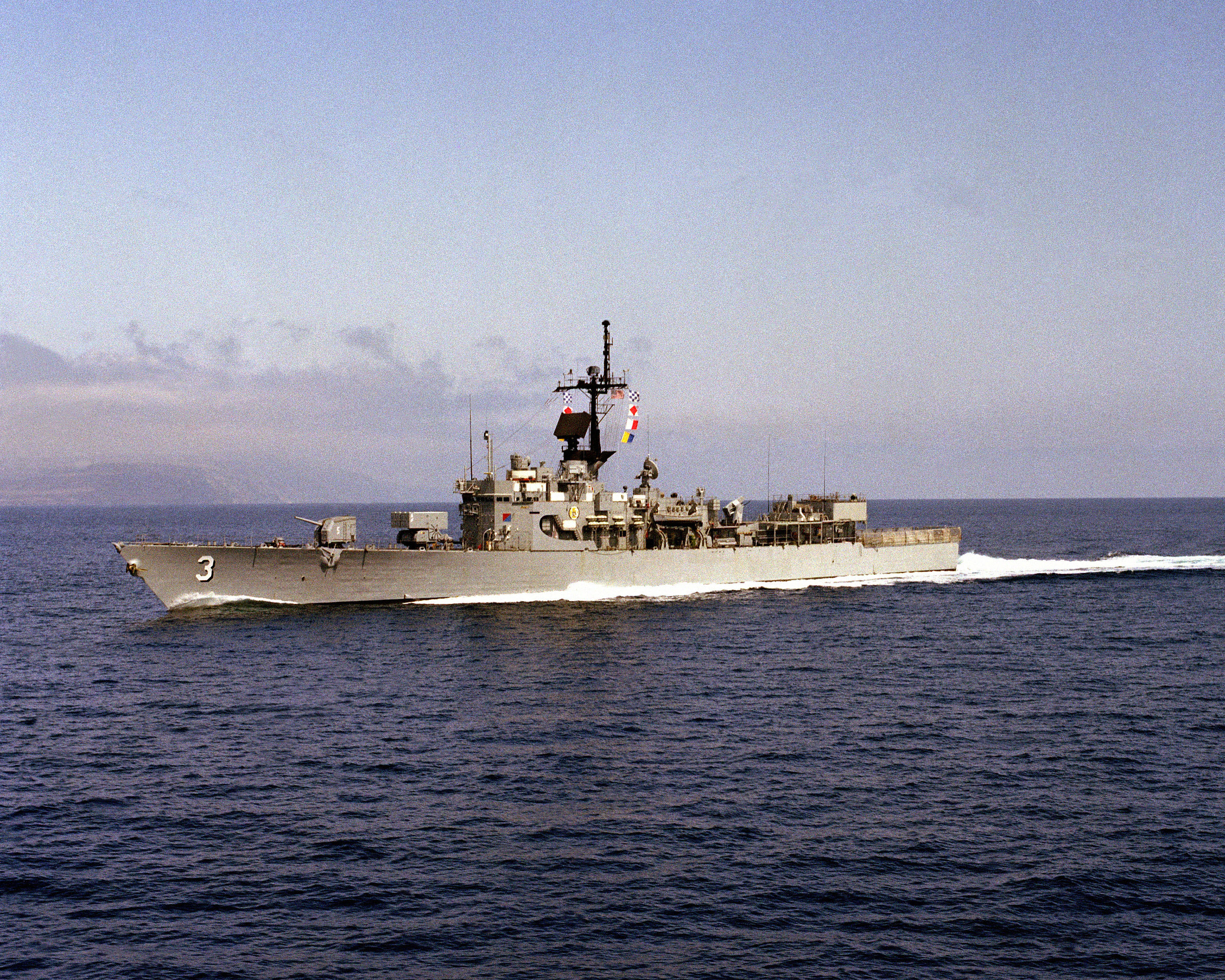 A port bow view of the guided missile frigate USS SCHOFIELD (FFG 3) underway.